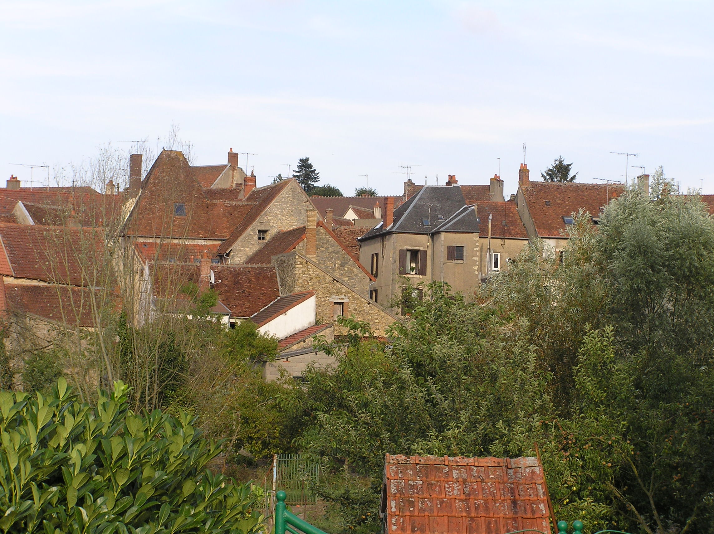 Lurcy-Levy general view